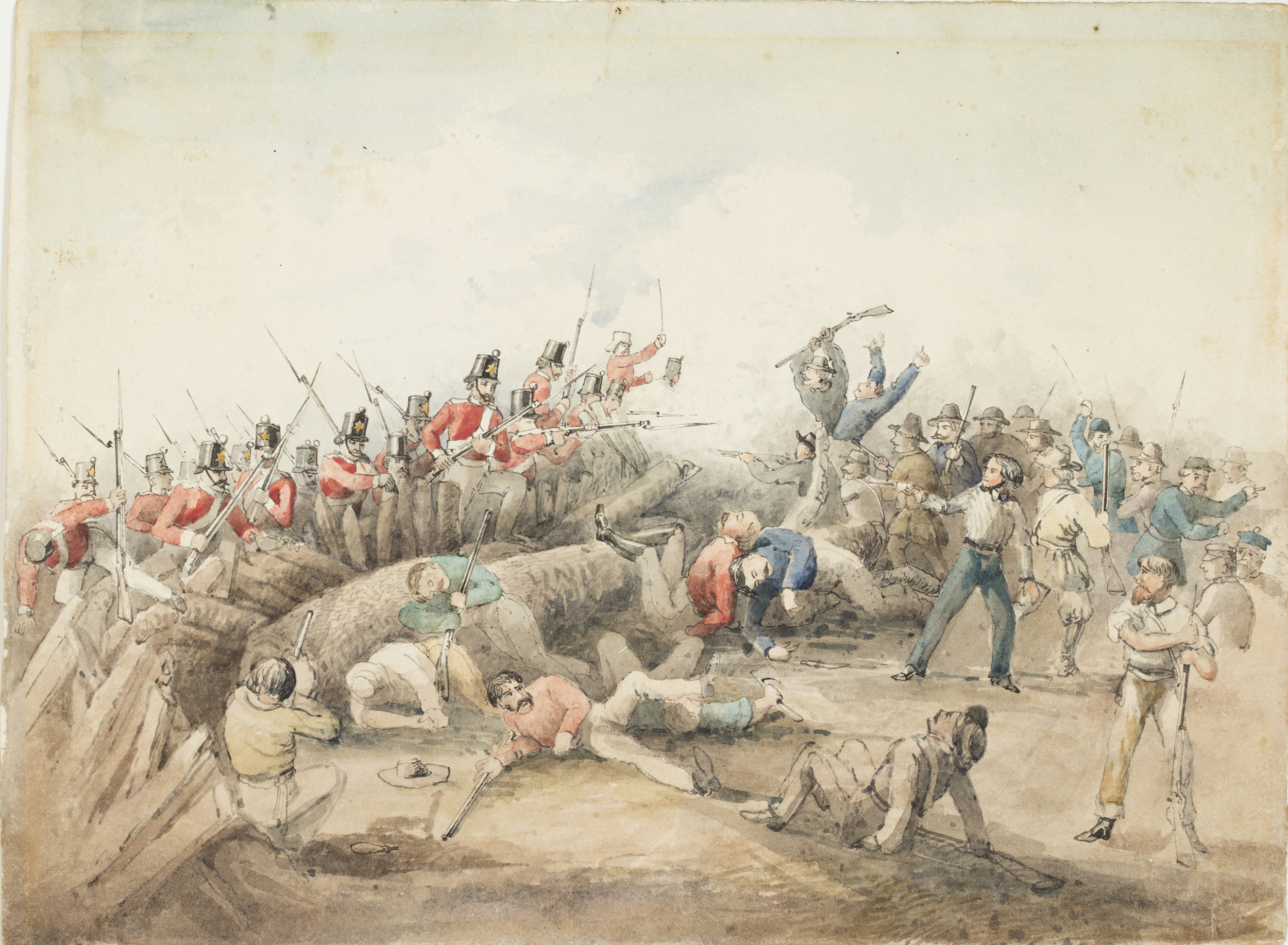 Battle of the Eureka Stockade. J. B. Henderson [1854] Watercolour